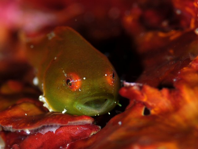 ダンゴウオ Lethotremus awae